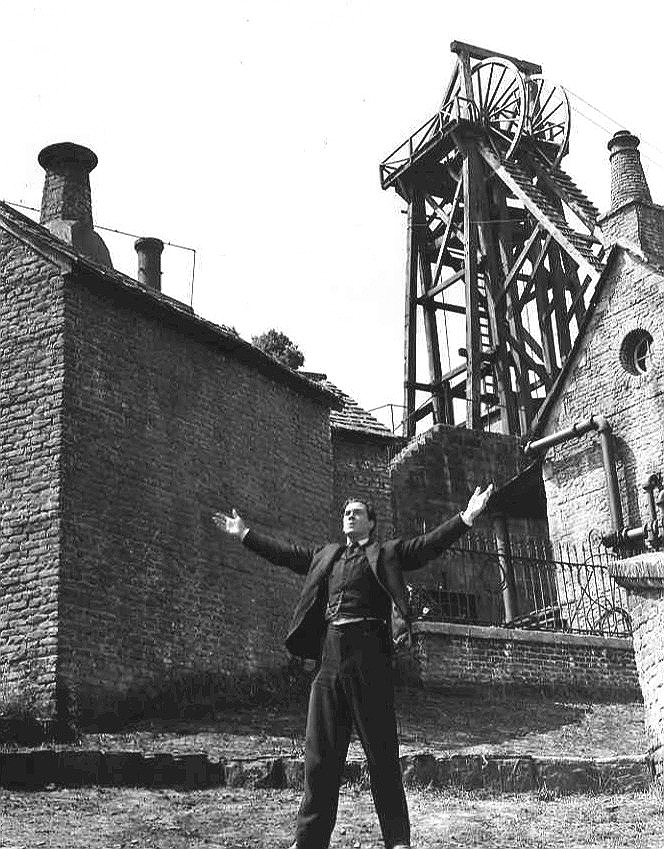 Photo from the 1941 film ‘’How Green Was My Valley’’ with Walter Pidgeon.